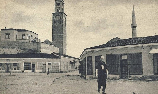 Old Bazaar, Clock Tower and Kubelie Mosque. (c. 1931)